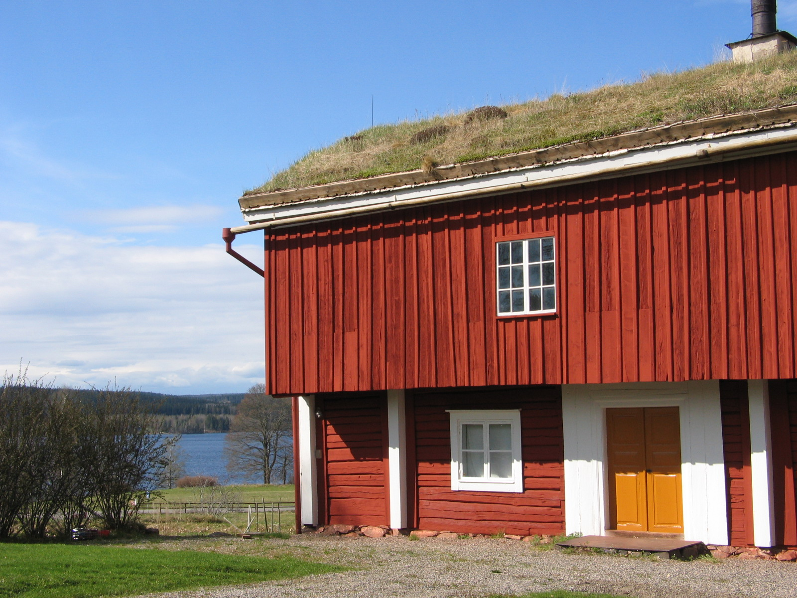 The lake Usken at Siggebohyttan manor